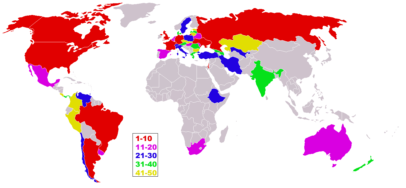 Jews by country TOP 50